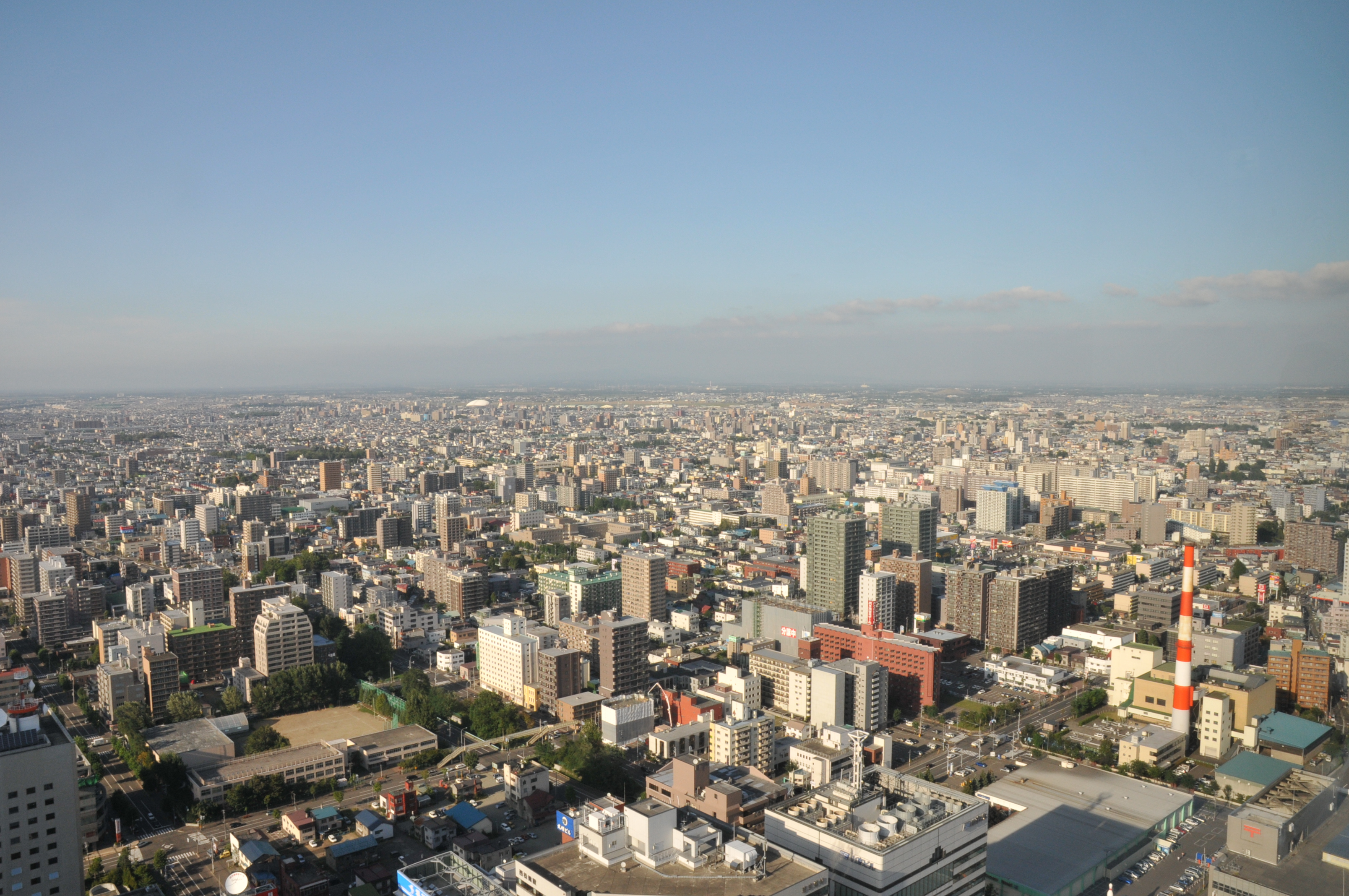 北海道札幌市北区（Kita ward Sapporo city Hokkaido）